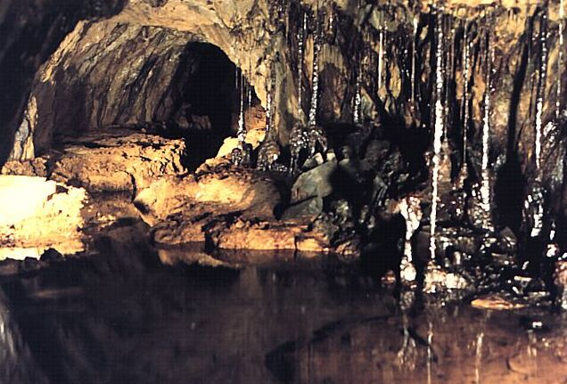 Sygun Copper Mine. An underground view of Sygun Copper Mine showing the stalagtites and rock formations.